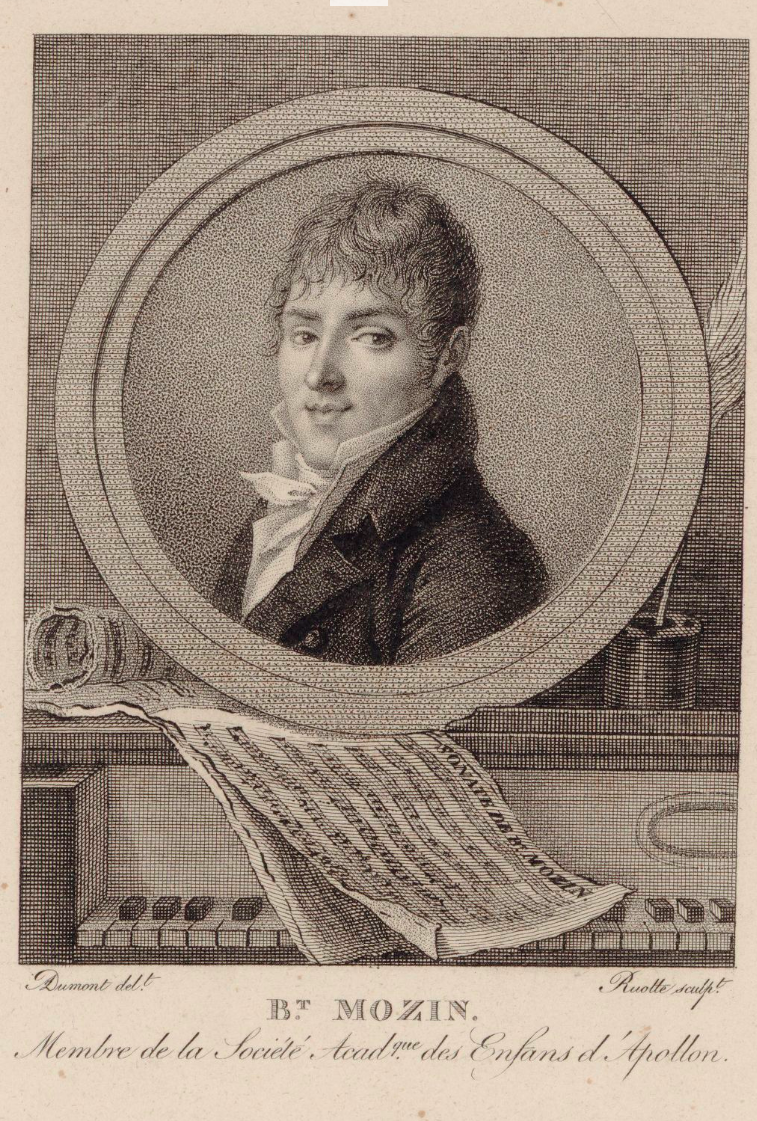 B.t Mozin, membre de la Société Acad.que des Enfans d'Apollon, print.